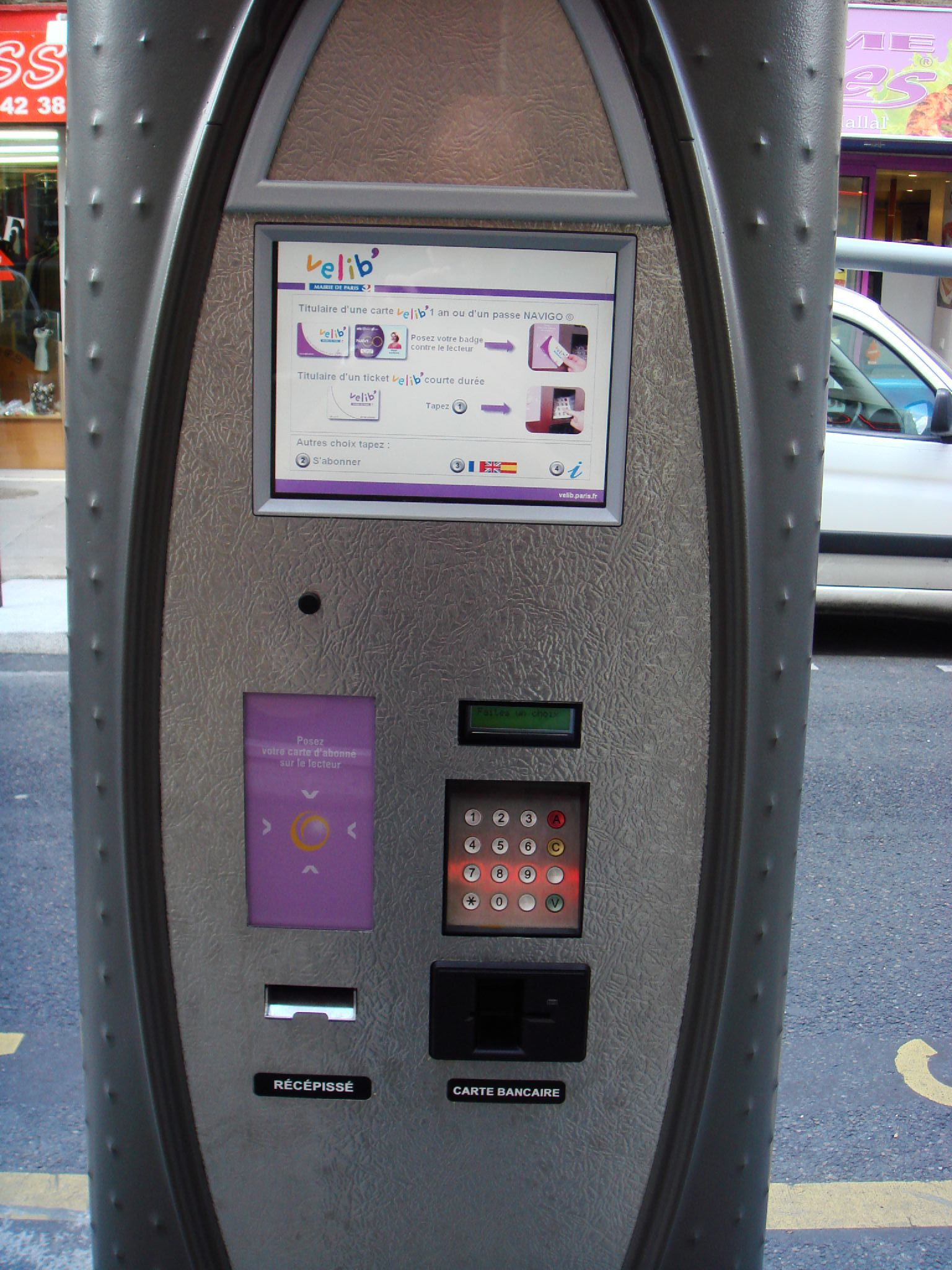 Paris Vélib Service (Vélib is short for ?Velo Liberte? or ?Bike Freedom?) is a city-wide bike rental service. With plans for 20,600 bicycles available on 1,451 stations, it is the largest bicycle rental project in the world.